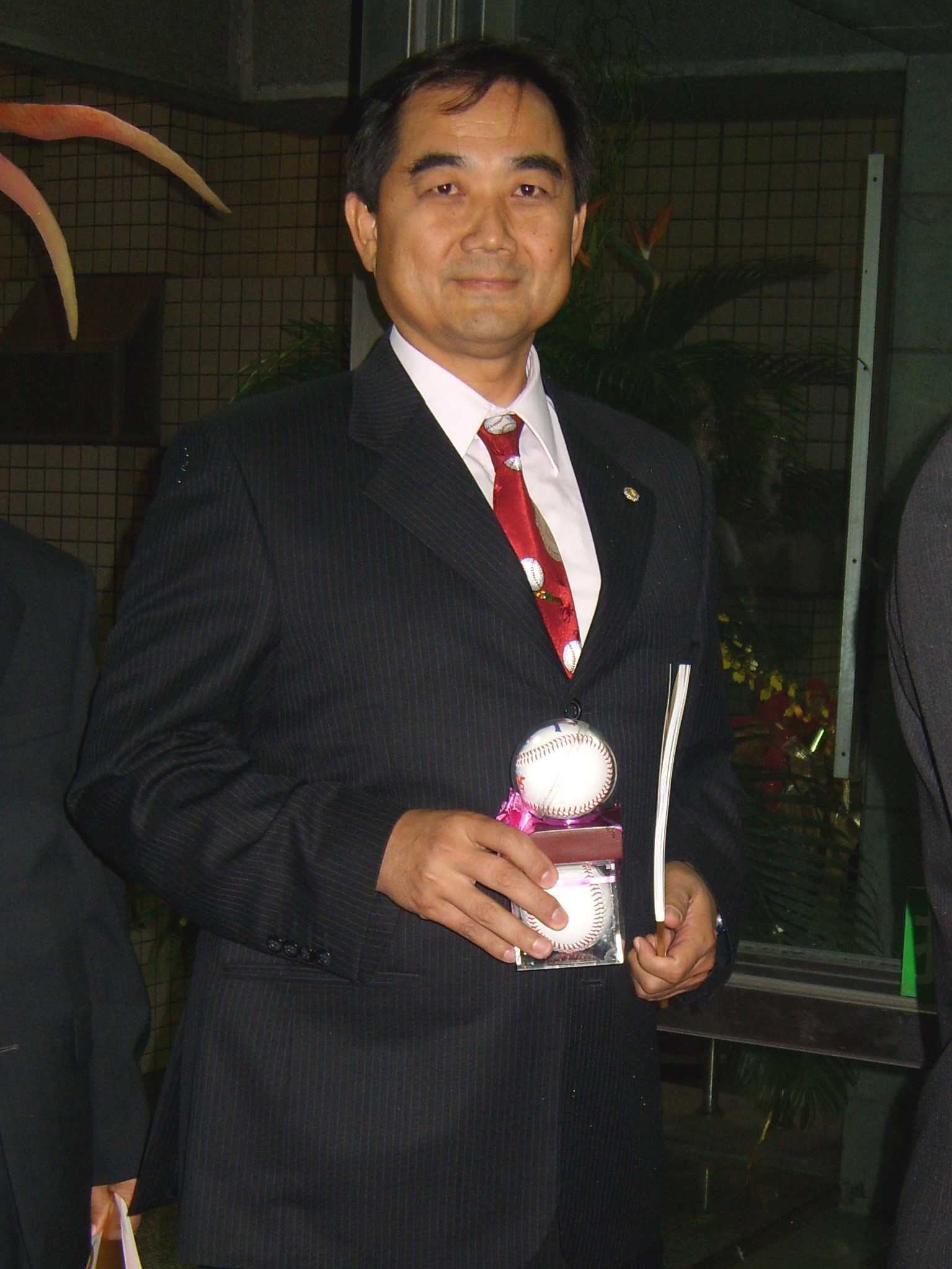 Chih-hsien Yeh, former Chinese Taipei Baseball National Team Manager.